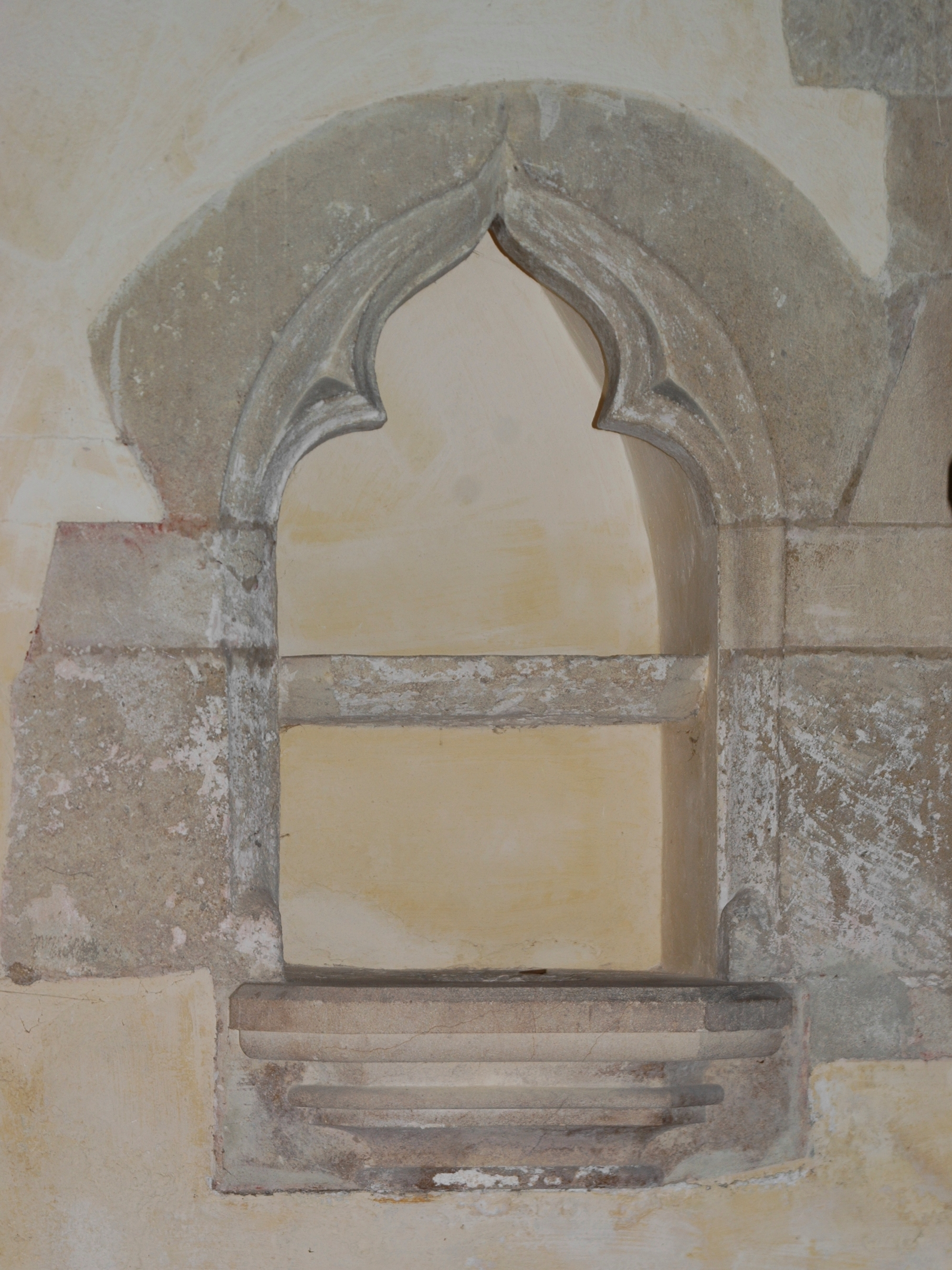 Church of England parish church of St Helen, Berrick Salome, Oxfordshire: 14th-century piscina